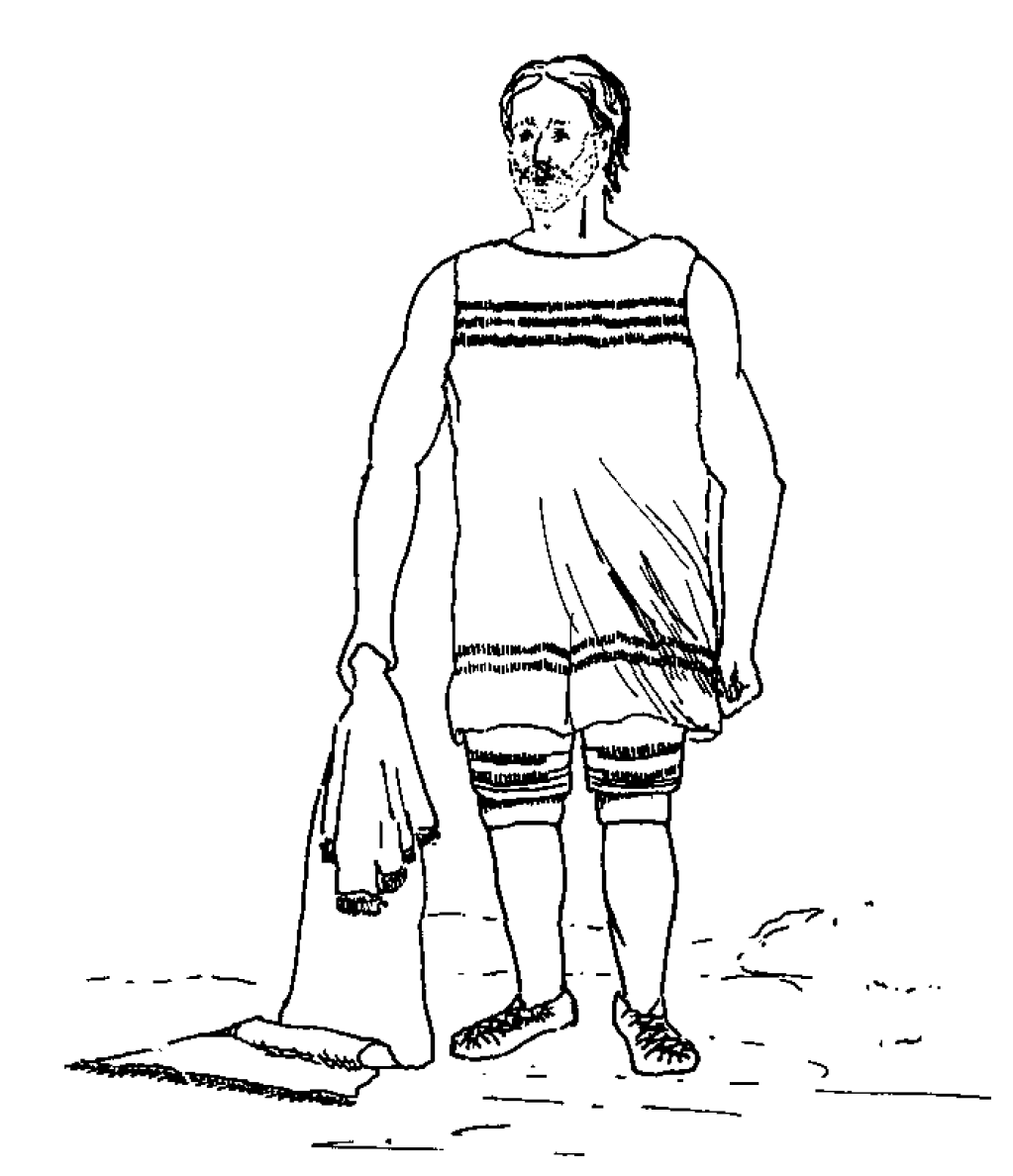 Reconstruction of the clothing of the iron aged bog body Mann von Obenalstendorf of 1911 found in 1895.